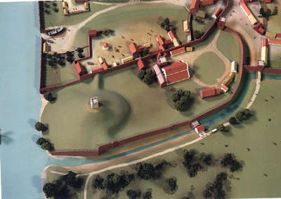 Part of the Worcester City museum collection. Built by Hugh Watson and Dave Austin, and Jeremy Burr; photographed by Museums Worcestershire.